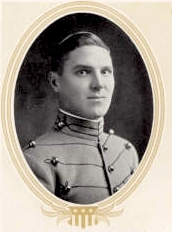 Photograph of Vernon Prichard